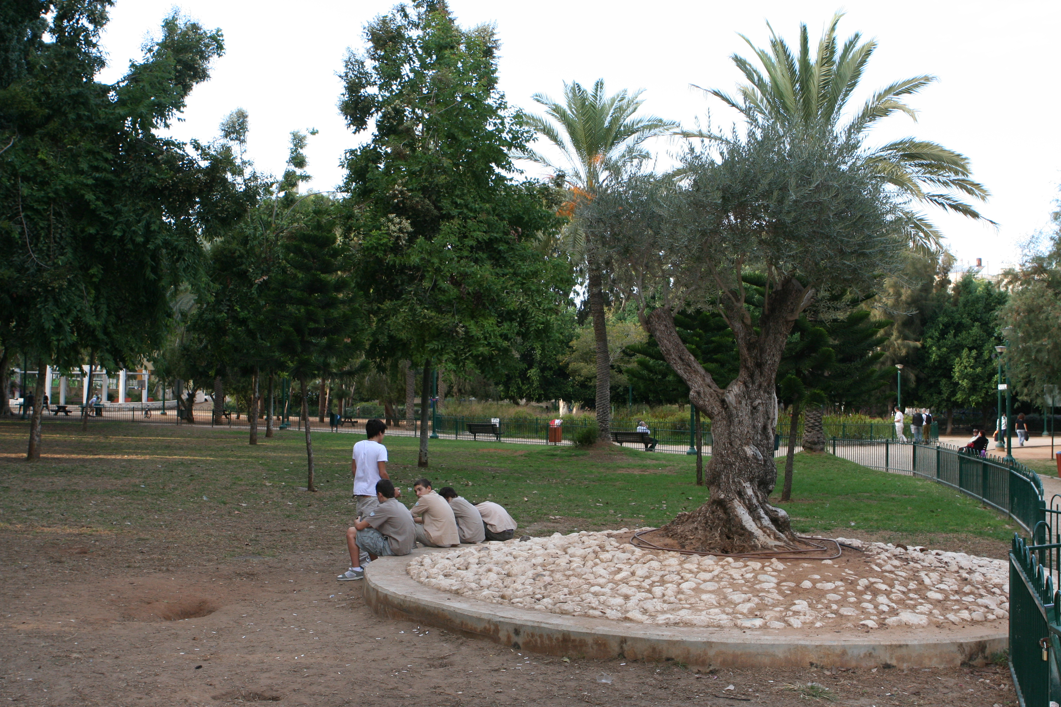 Another view of Gan Meir (Meir Garden) in Tel Aviv.